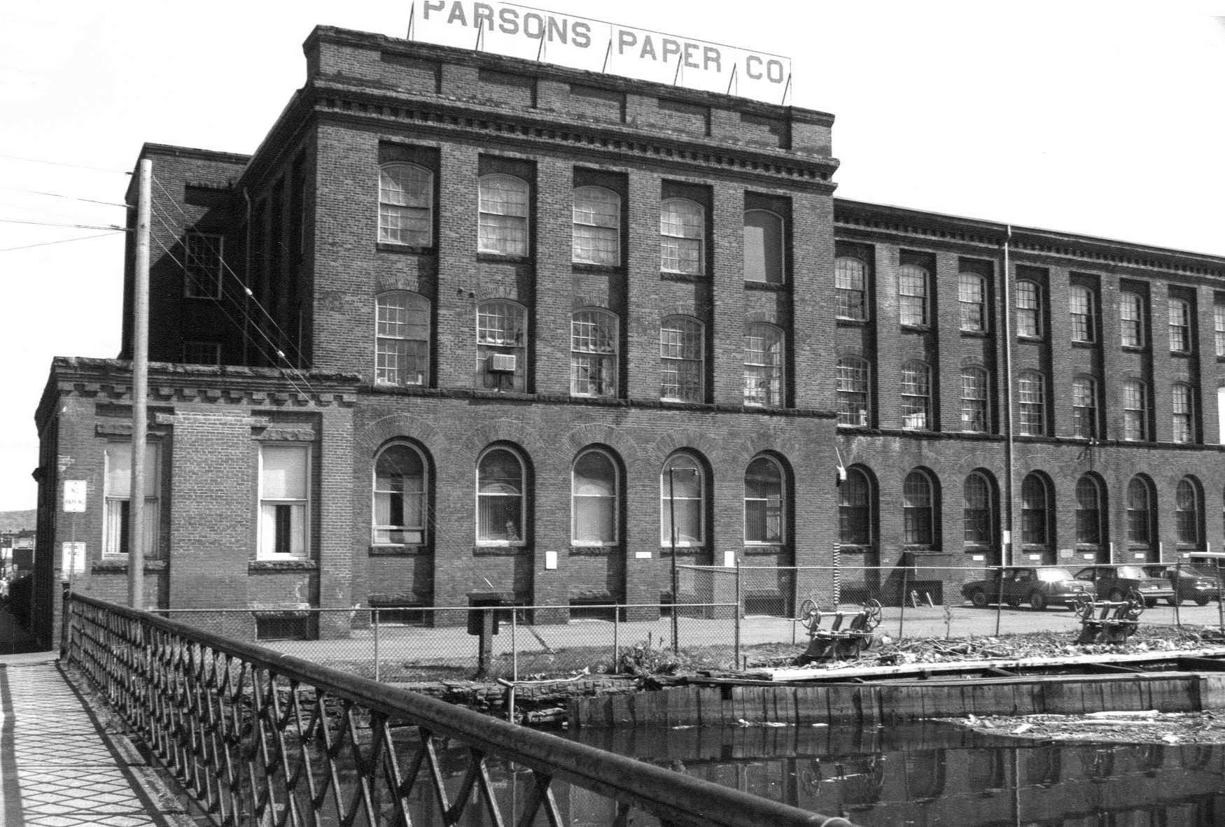 The second mill of the Parsons Paper Company, as it appeared around 1978.